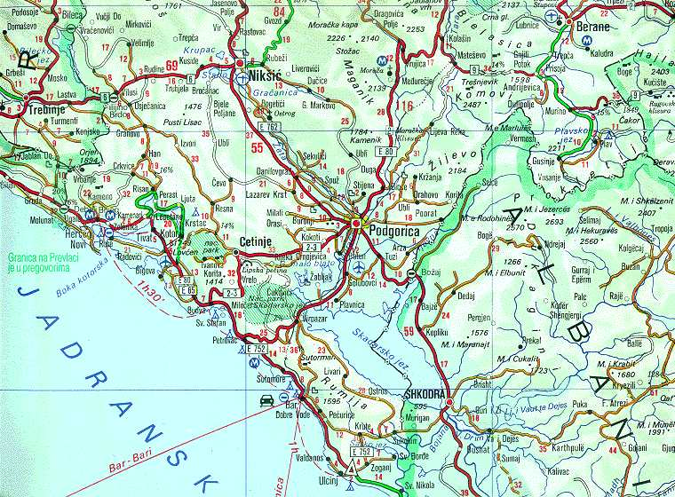 Map of Montenegrin Littoral Region and Boka kotorska in the time of occupation of Croatian Prevlaka Region which is the remaining part of Boka kotorska that belongs to Croatia.